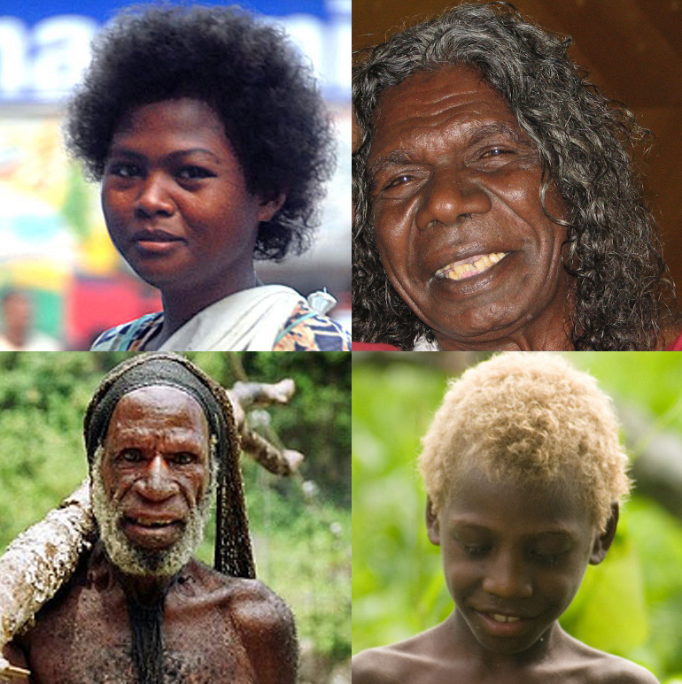 Four populations of the first wave of modern human migrations in southern Asia and Australasia, between 70 an 50.000 years BP : Negrito woman from Philippines. Aboriginal man from Australia Papuan man from New Guinea Vanuatu boy from Melanesia